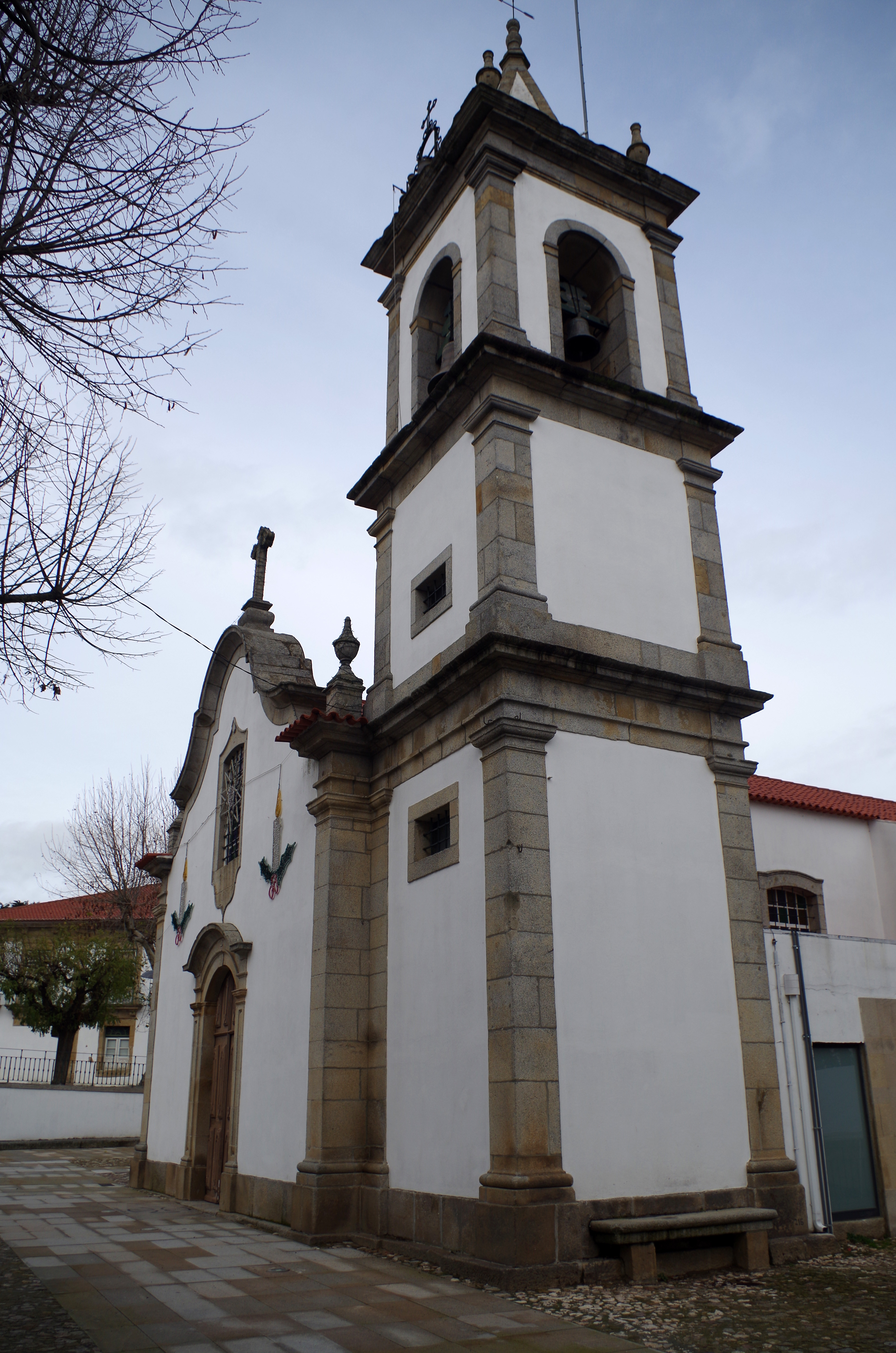 Church of Saint Louis in Pinhel (Guarda, Portugal).